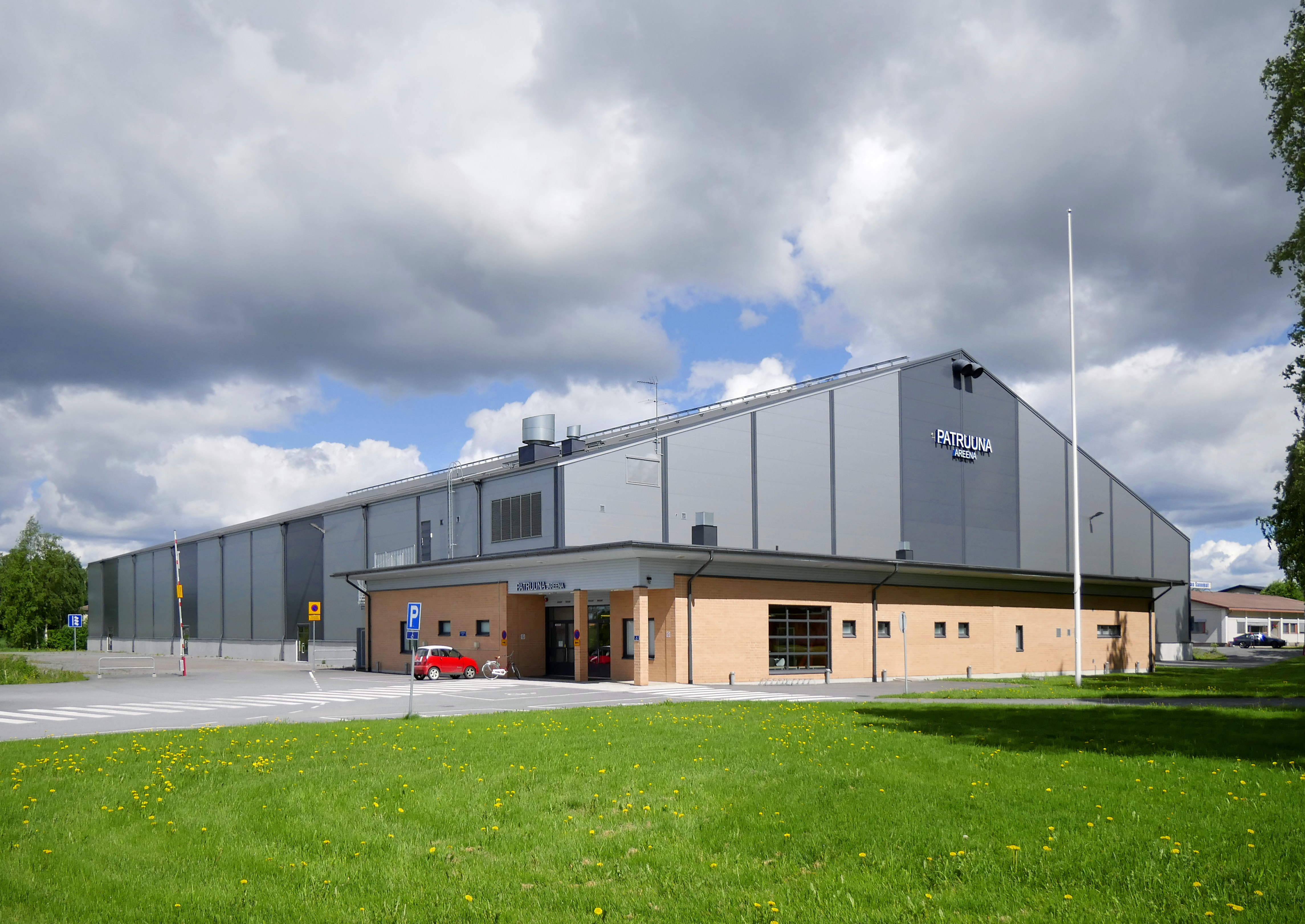 Patruuna Areena in Lapua, Finland.